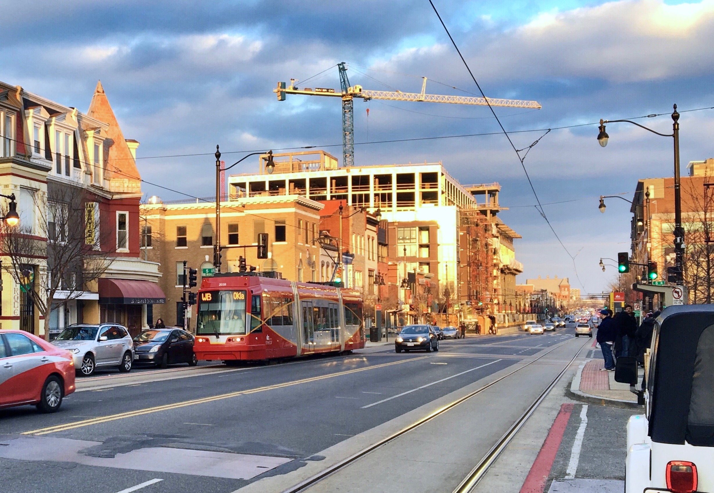 DC Streetcar car 203 (built by United Streetcar) westbound on H Street at 5th Street on March 5, 2016, one week after the streetcar line opened for service. Across the street, people are waiting at the stop for an eastbound streetcar.